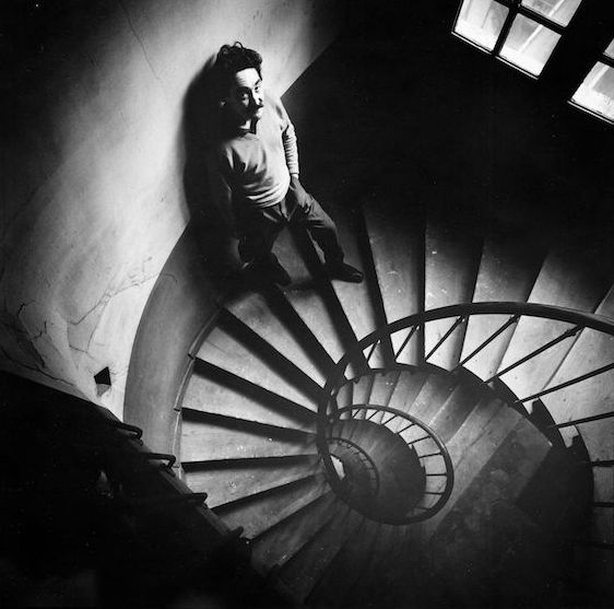 Jesus Rafael Soto by Lothar Wolleh